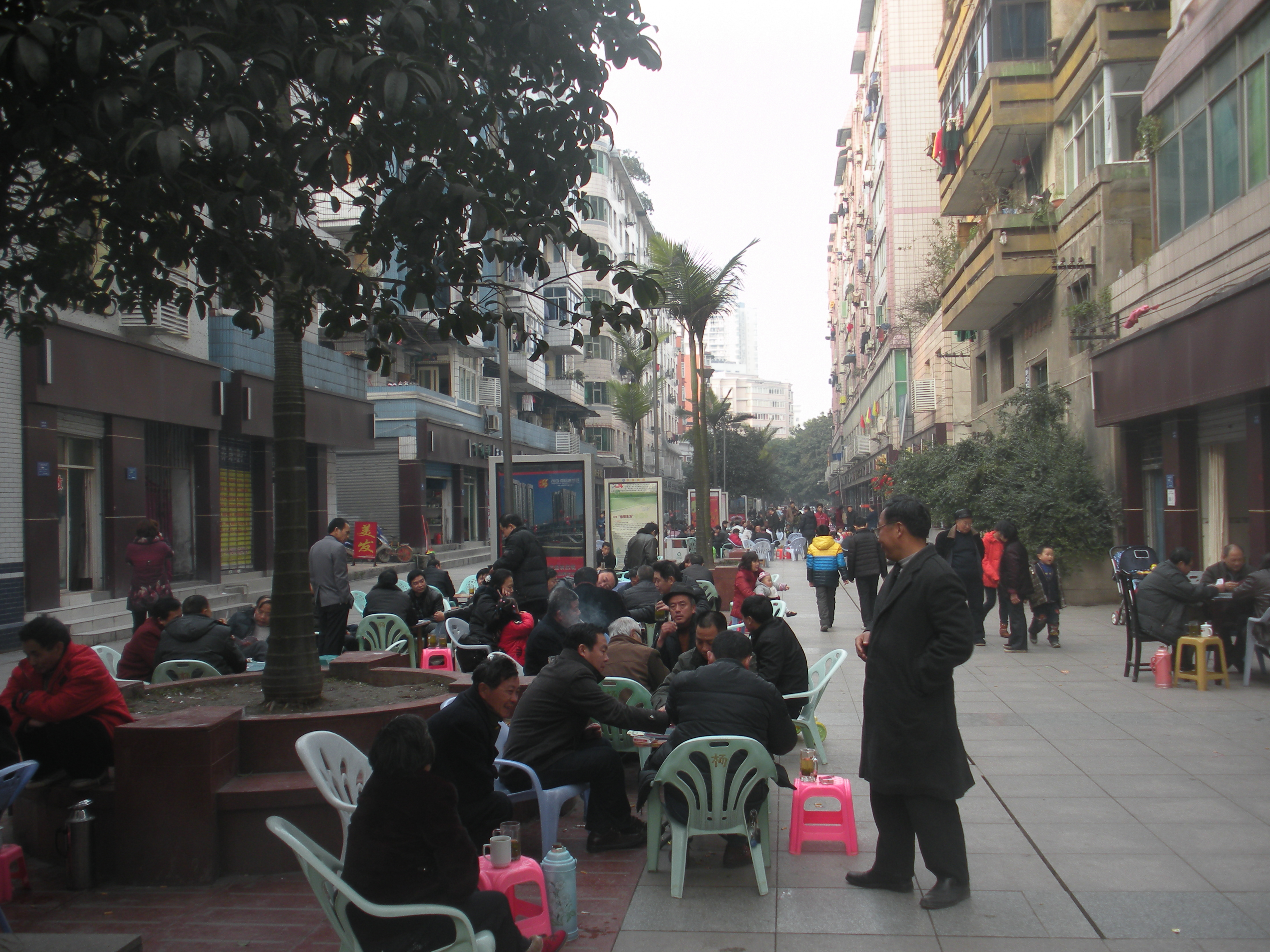 The open tea party in the street,Hechuan District.The photo has been taken by Prof.Chen Hualin.